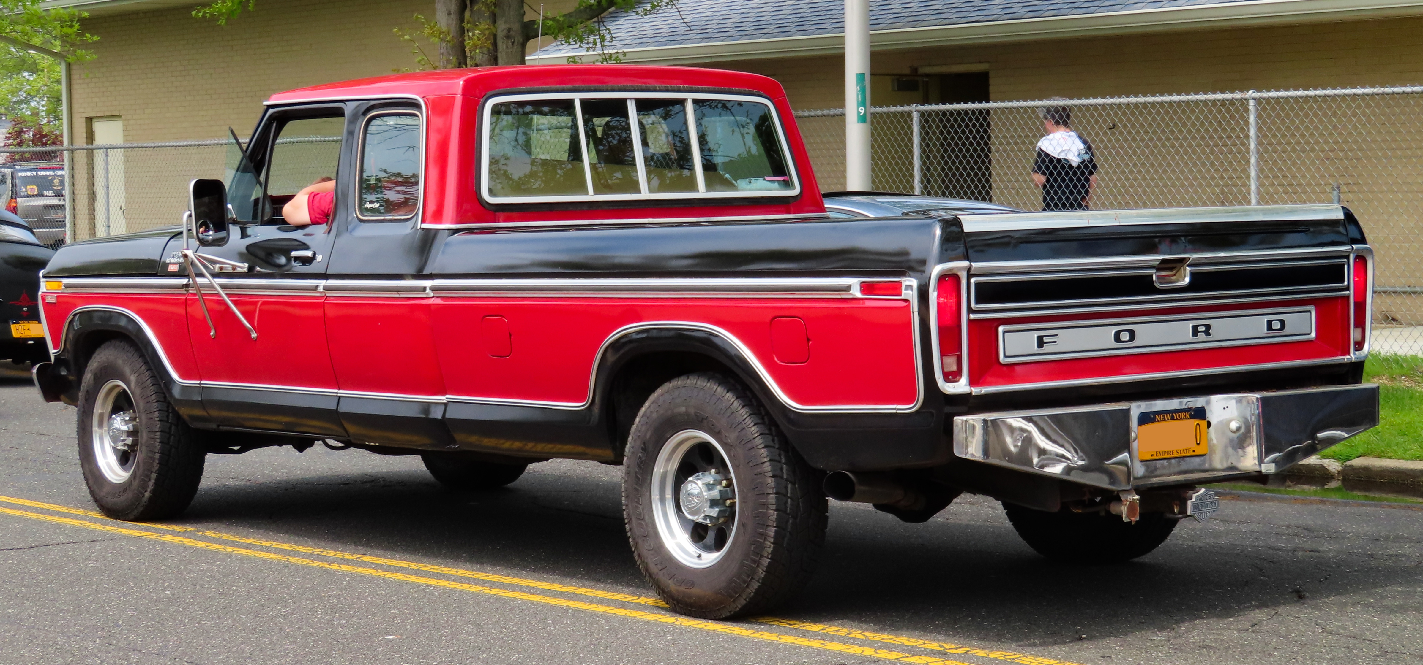 A 1973-75 Ford Ranger (F-Series) XLT photographed at Merrick, New York, USA